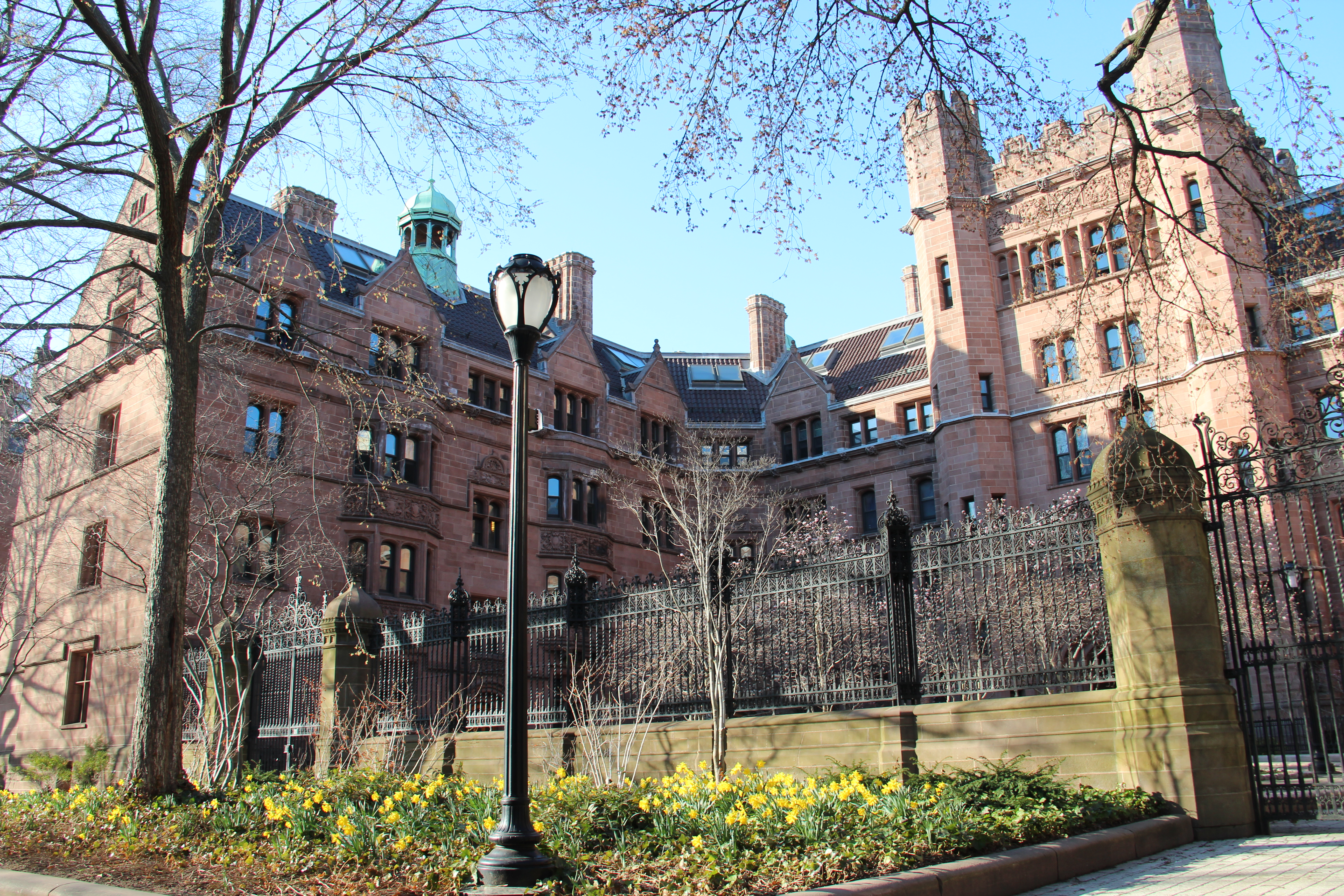 Vanderbilt Hall and gate from Chapel Street with daffodils in foreground, Old Campus, Yale University, New Haven, CT